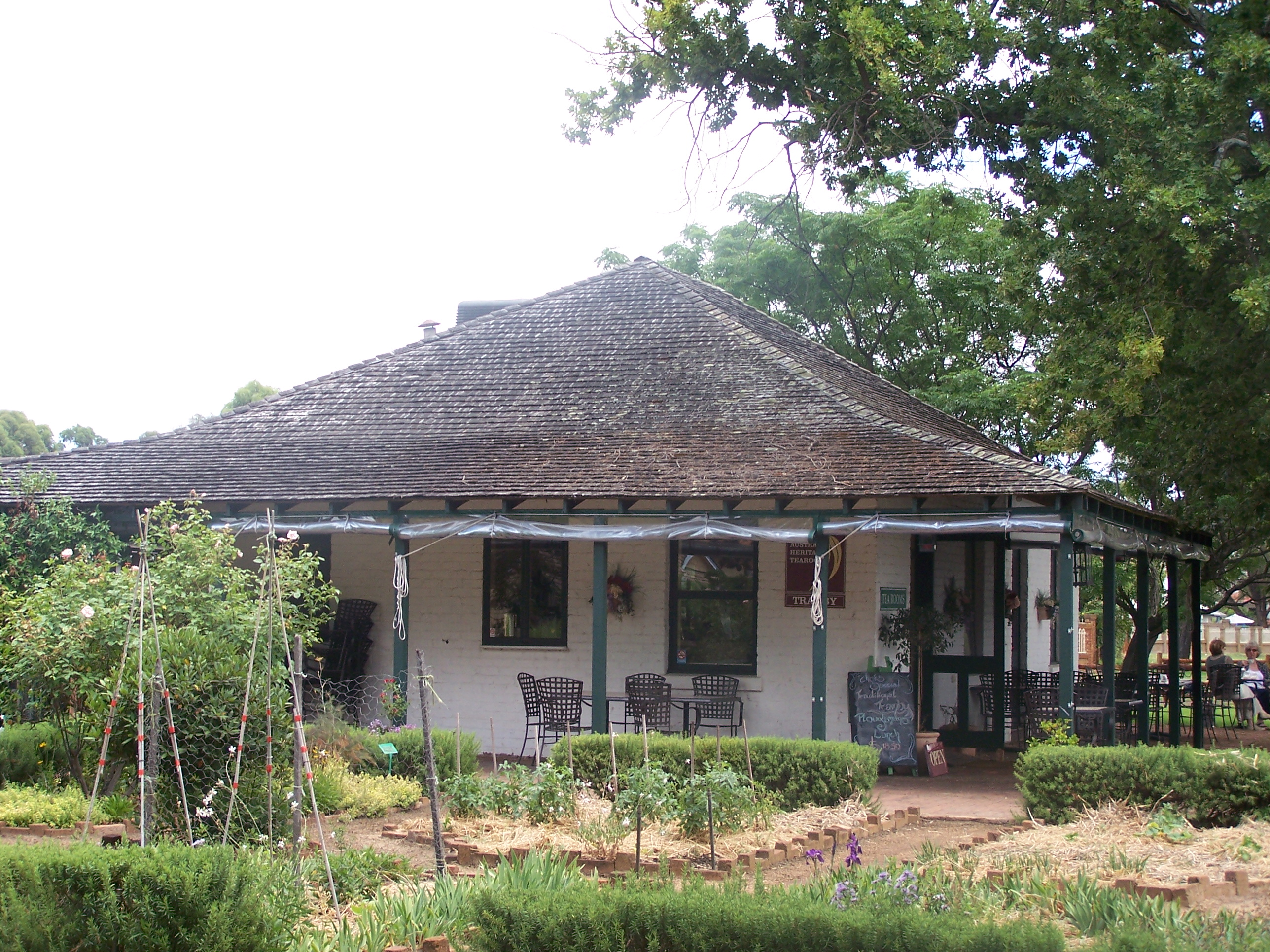 Tranby House tea room, built 1890 as managers residence converted to tea rooms 1910